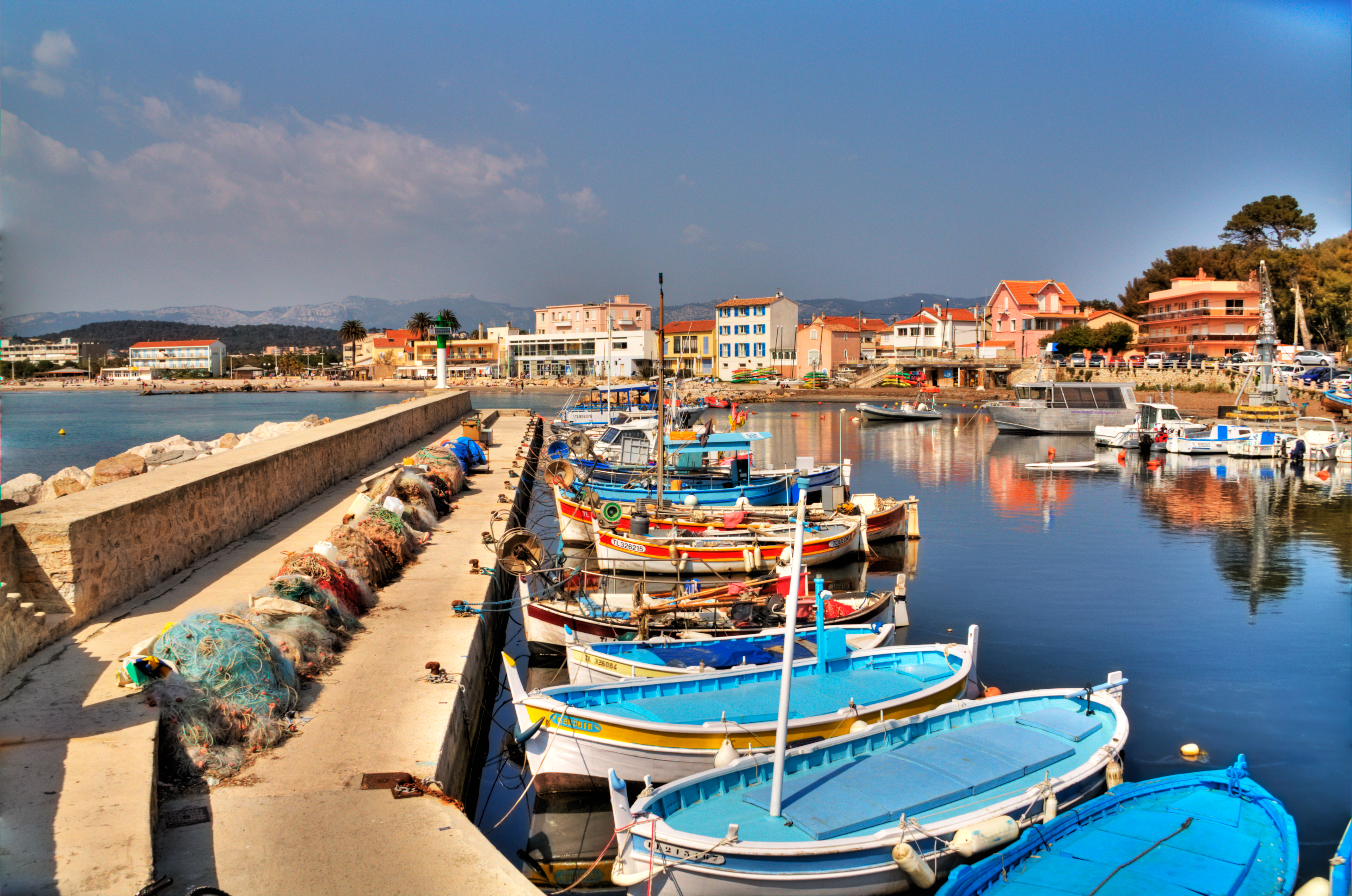 Port de Saint Elme